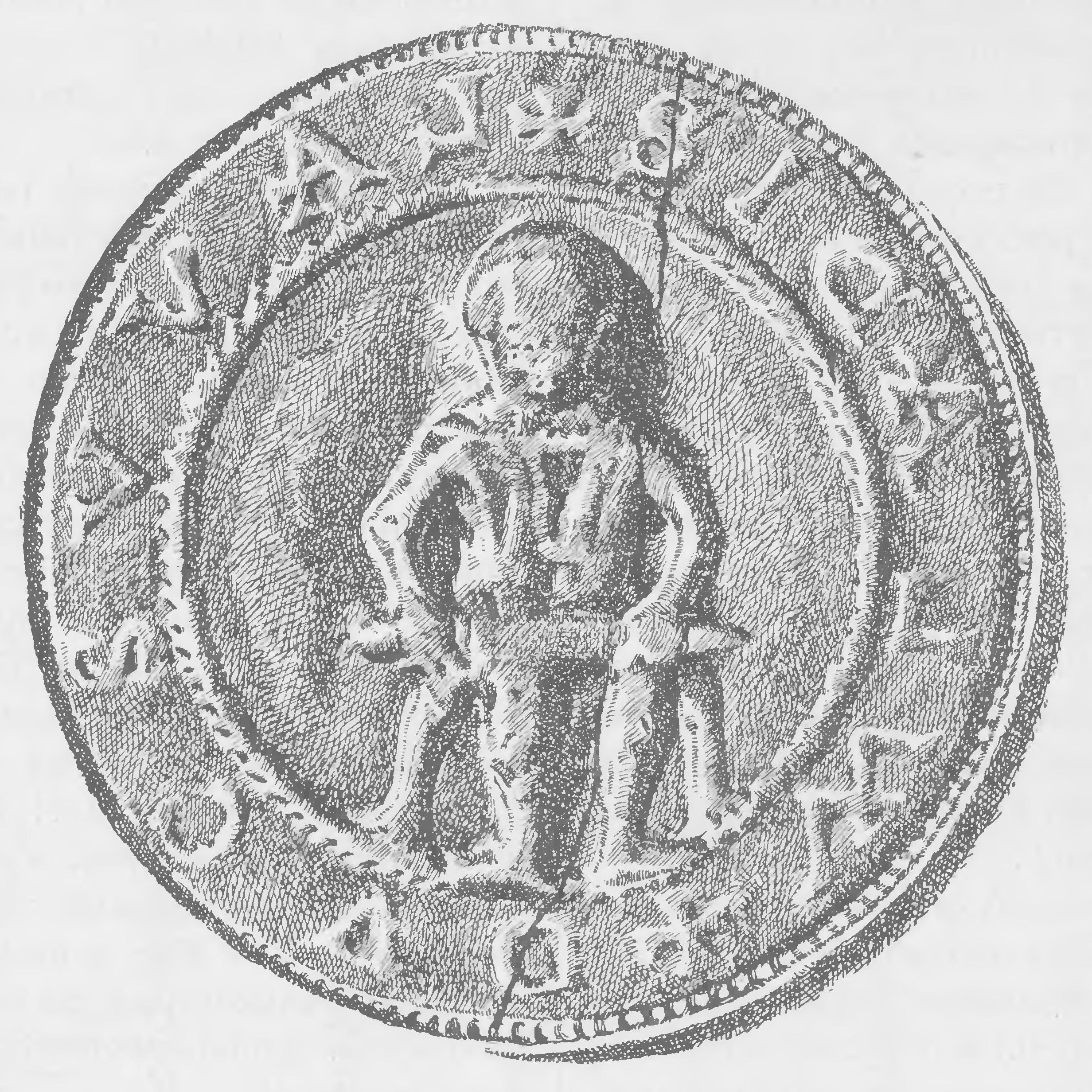 Reconstruction of seal of Wladyslaw Herman by Francisze Piekosiński.